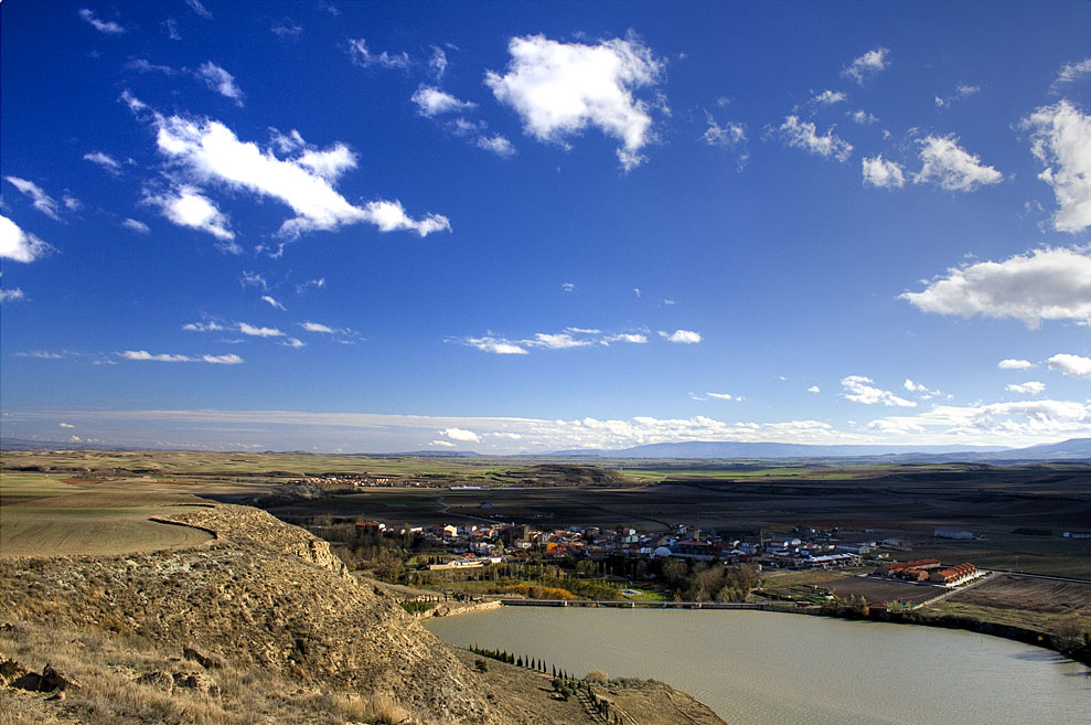 Sight over Leiva, La Rioja, Spain, from a hill close to the local dam.